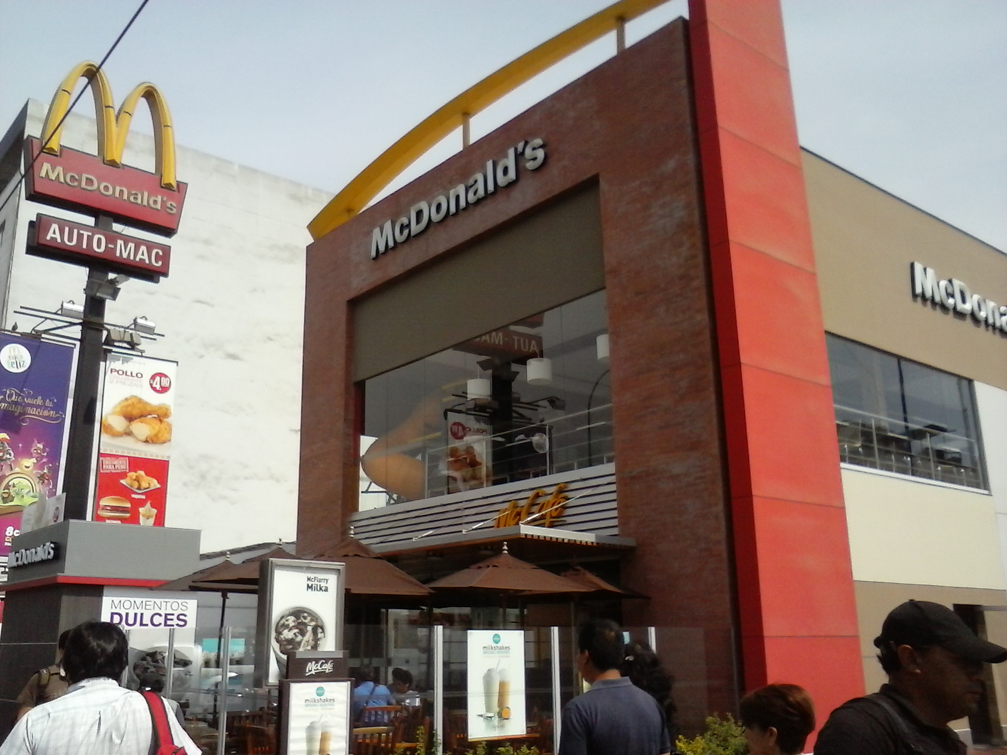 McDonald's Restaurant in Surco district, Lima City